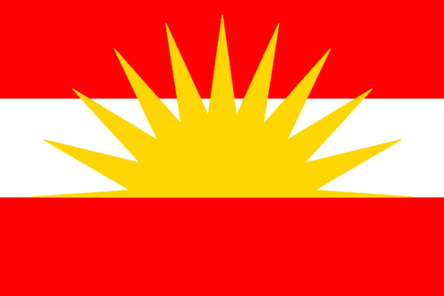 Flag of the X Corps of Pakistan.